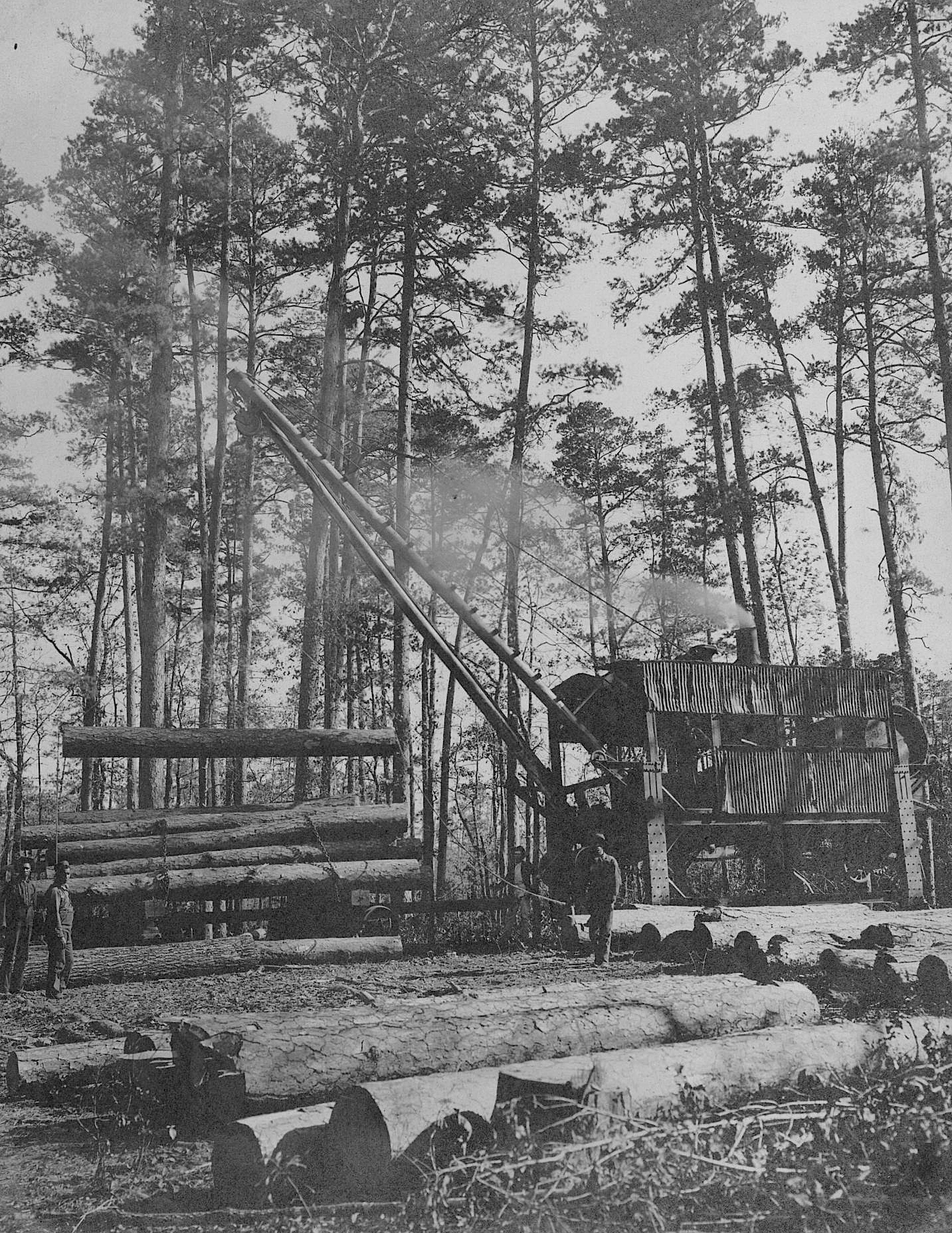 Southern Pine Lumber Company's McGiffert log loader 1 near the company's logging camp 1 in Trinity County, Texas. Loader crewmen pose while loading logs onto rail cars.